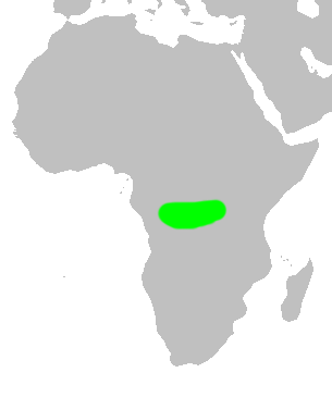 Range of Spermophaga poliogenys